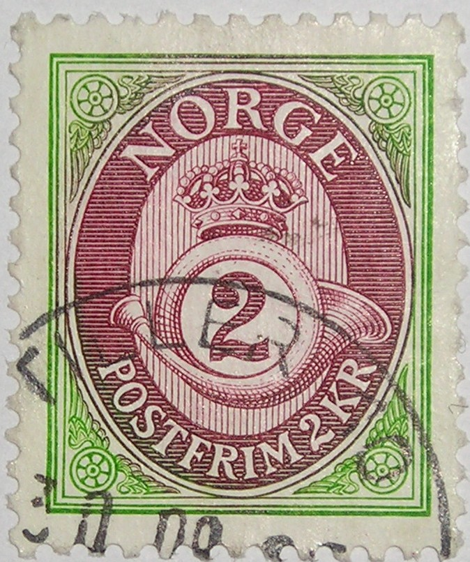 Definitive stamp of Norway first used in 1871, in a bicolor version of 1992 (?).